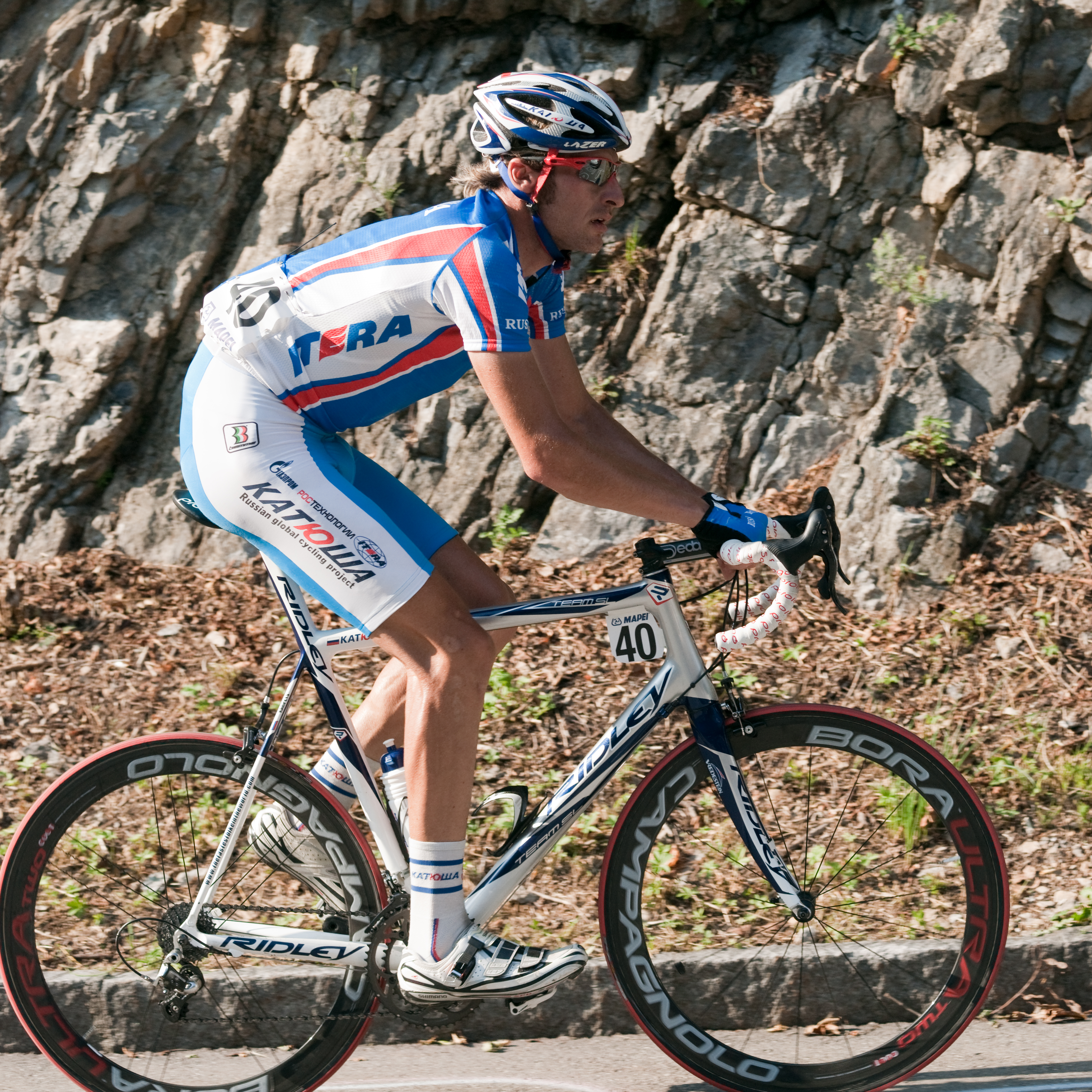 Vladimir Karpets during the 2009 UCI Road World Championships in Mendrisio, Switzerland.